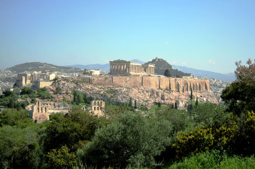 Ron Waller, person photograph, Acropolis and Parthenon from low in the south-west